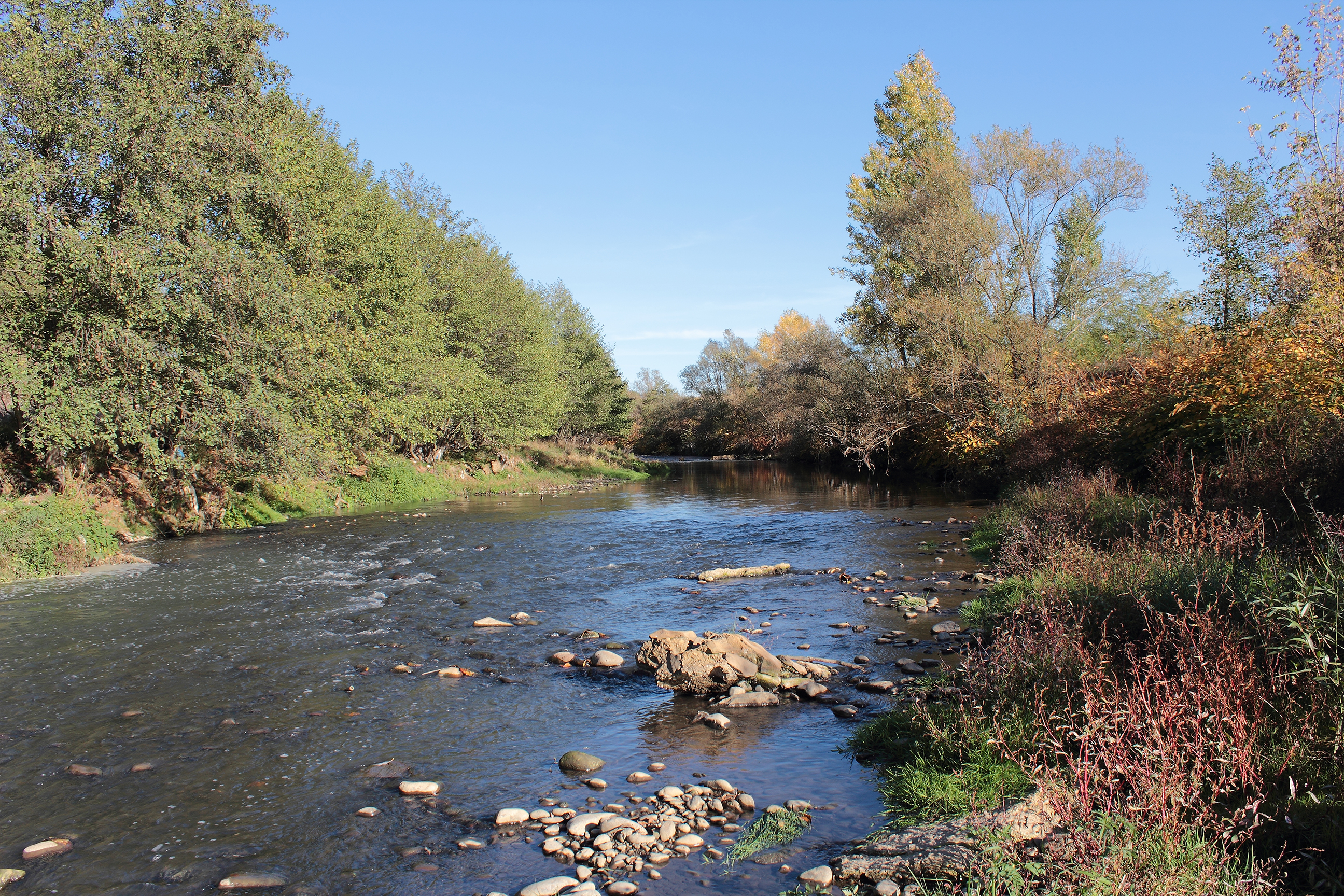 Săsar river at the edge of Săsar village in Maramureș, Romania